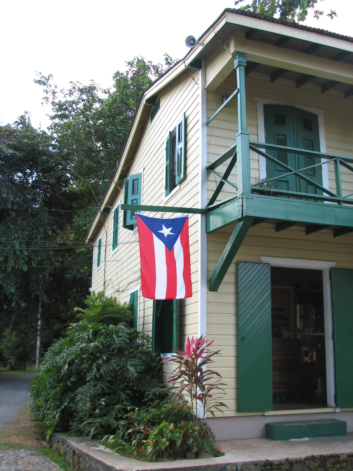 Hacienda Juanita; author: Hiram A. Gay; date: 12/25/06